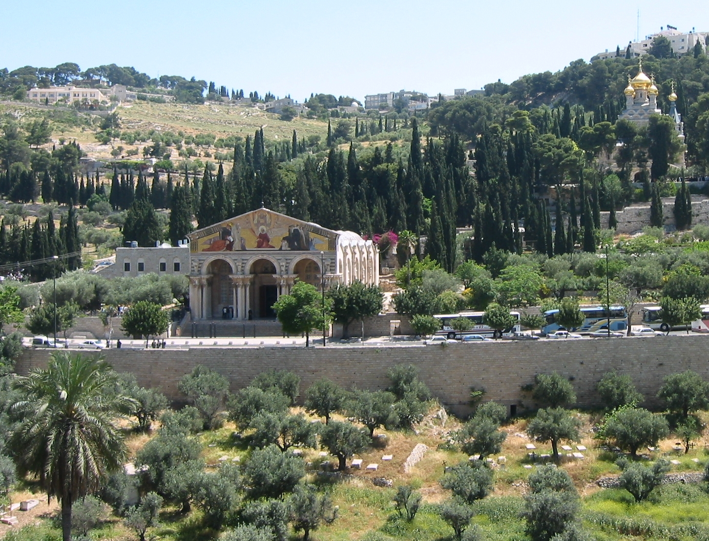 Photo by Gila Brand. This is my own work. View of Mount of Olives and churches (Church of All Nations, Russian Orthodox Church of Maria Magdalene)